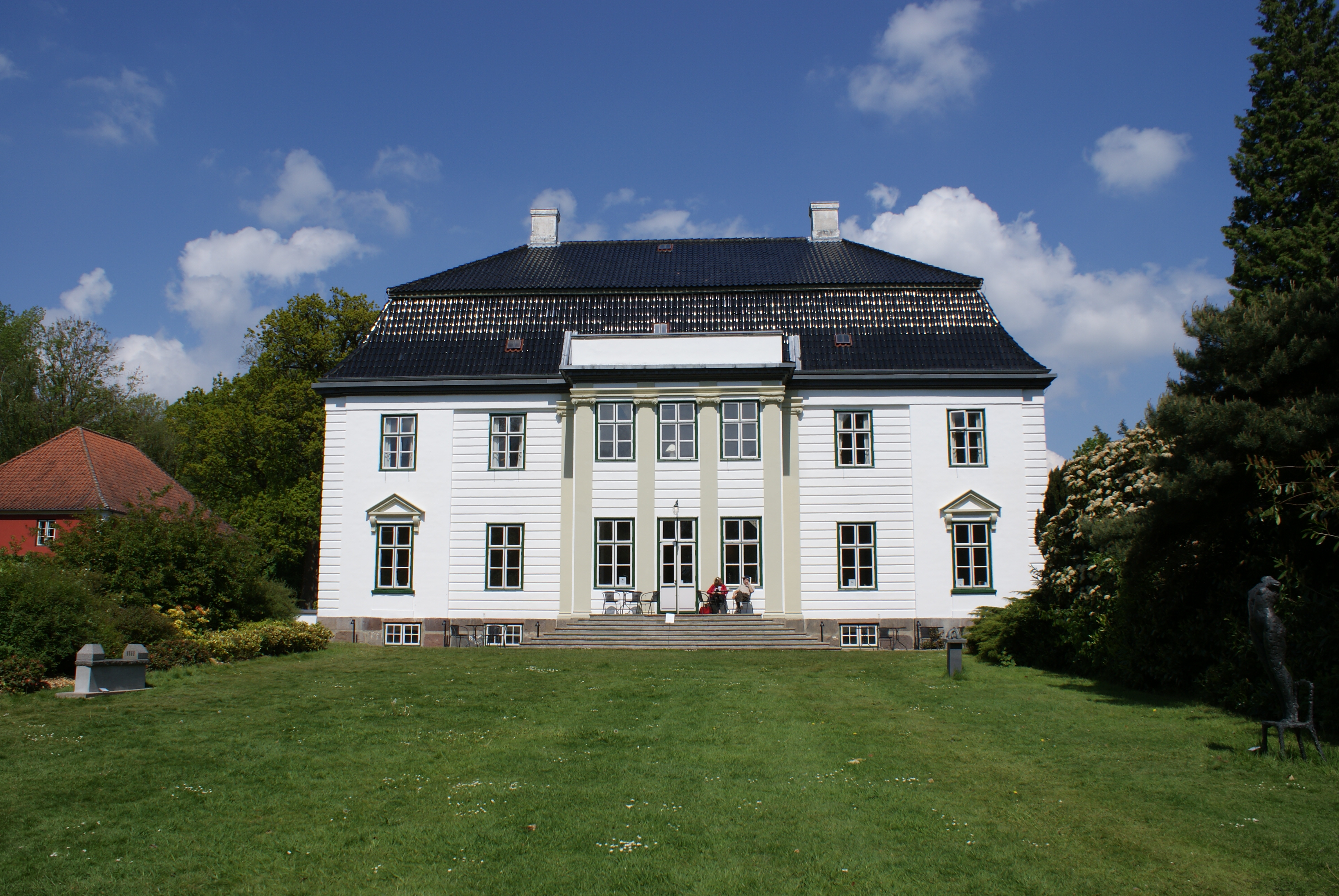 Description=Augustenborg Palais Source=myself Date=02.2007 Author=PodracerHH 17:22, 30 August 2007 (UTC)